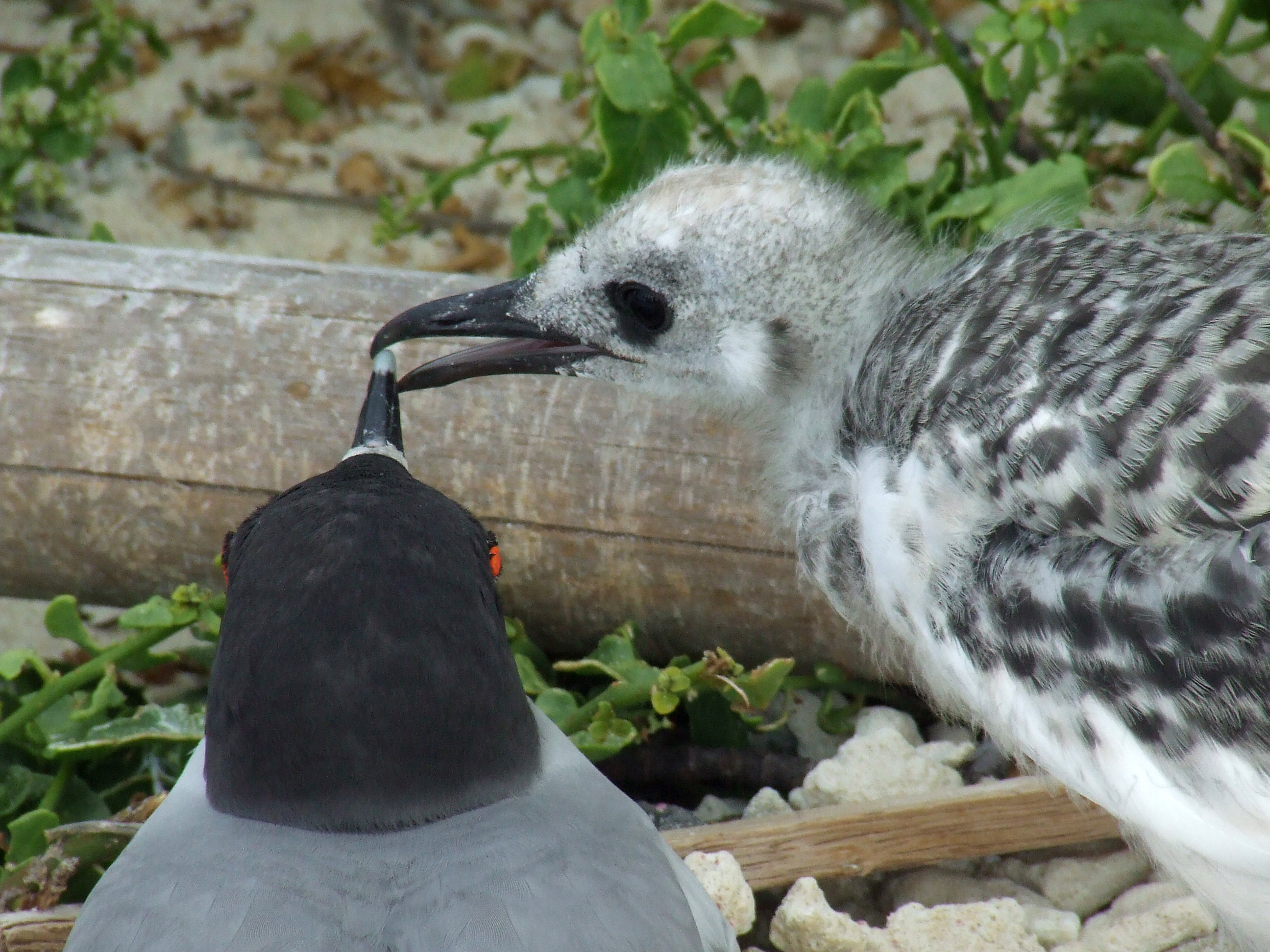 Swallow tailed gull chick feeding from parent in Galapagos islands